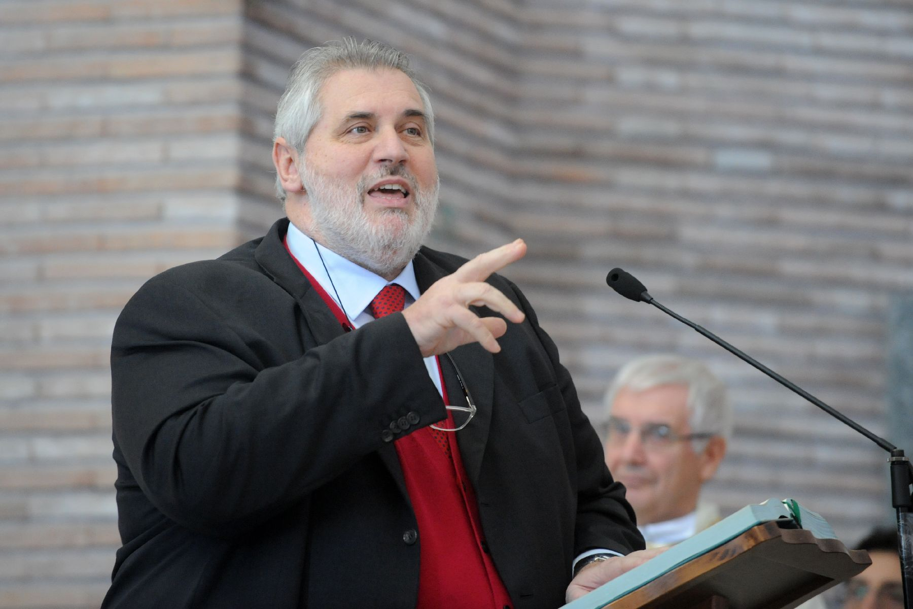 Fabrizio Palenzona, President of ADR, during a press conference at the airport Leonardo da Vinci, Rome